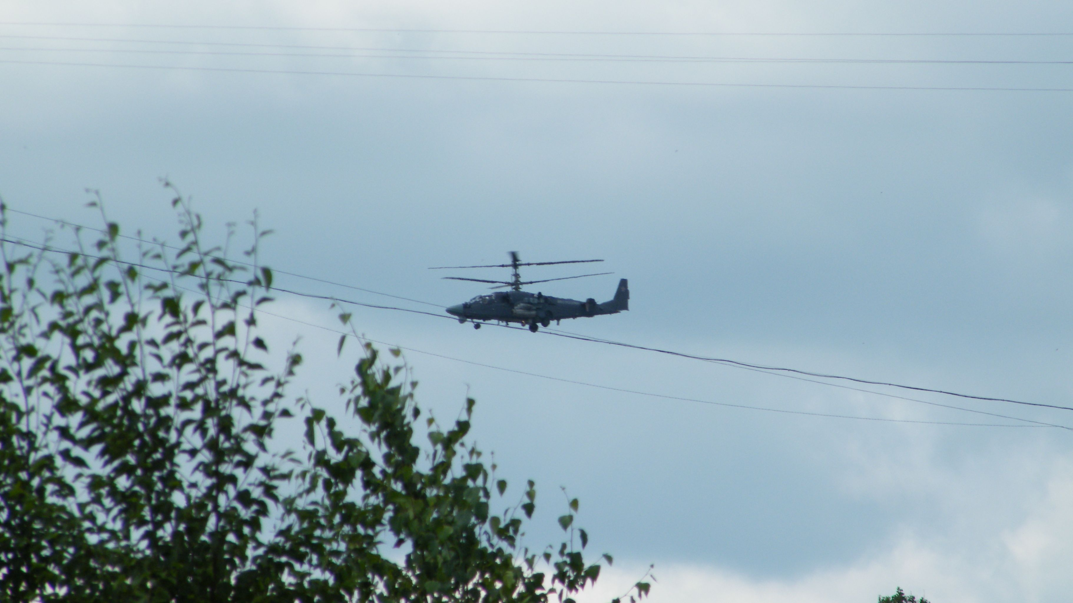 Вертолет над Арсеньевым